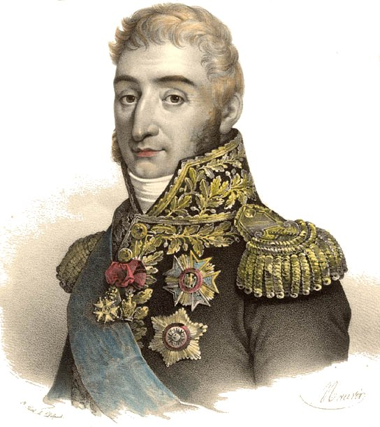 Charles Pierre François Augereau, 1st Duc de Castiglione (21 October 1757 – 12 June 1816)